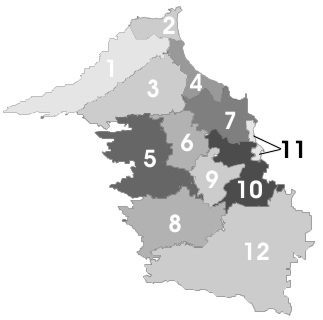 i created the image out a cartographic maps